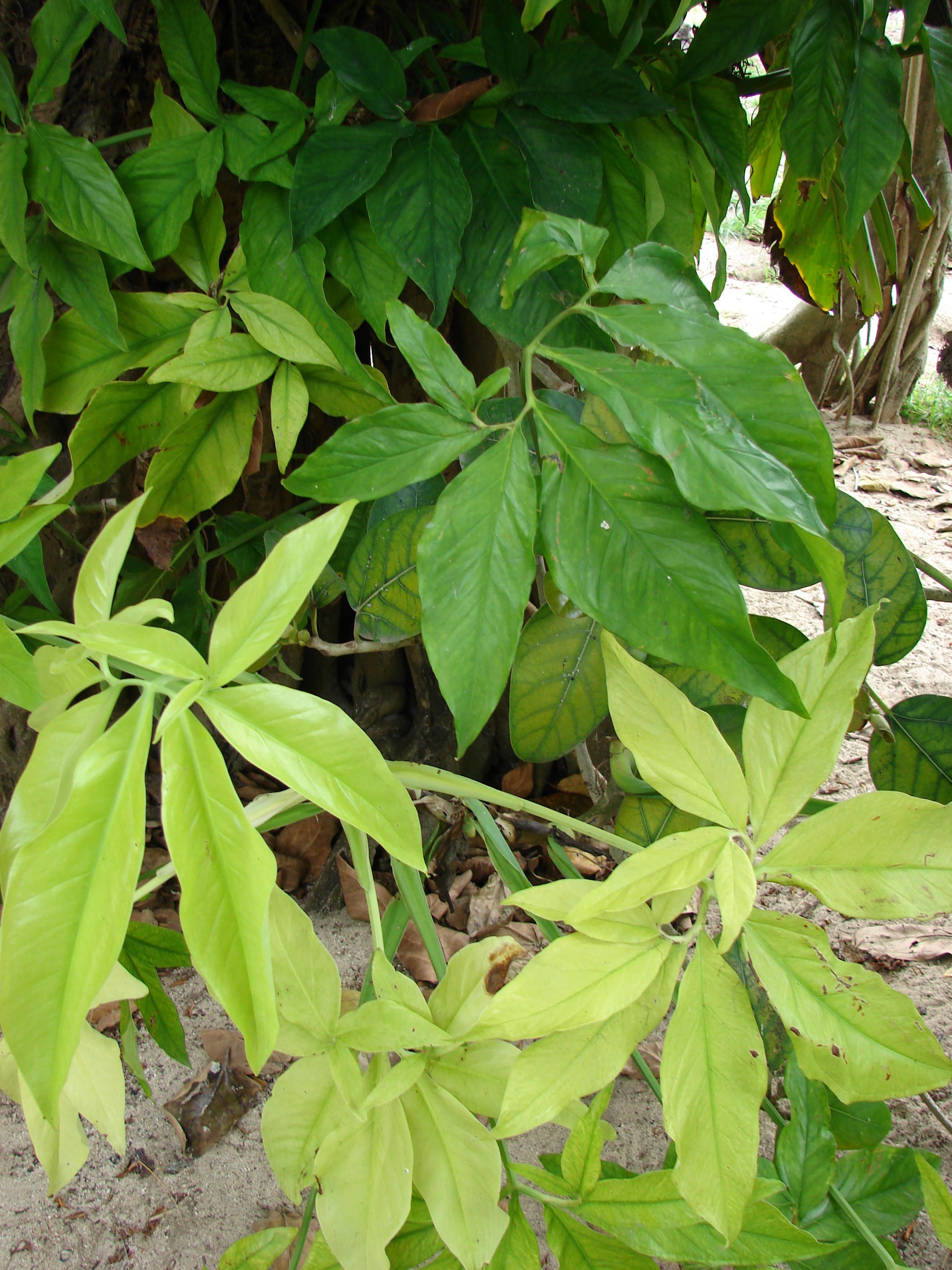 Syngonium podophyllum (leaves). Location: Midway Atoll, Cable Company buildings Sand Island